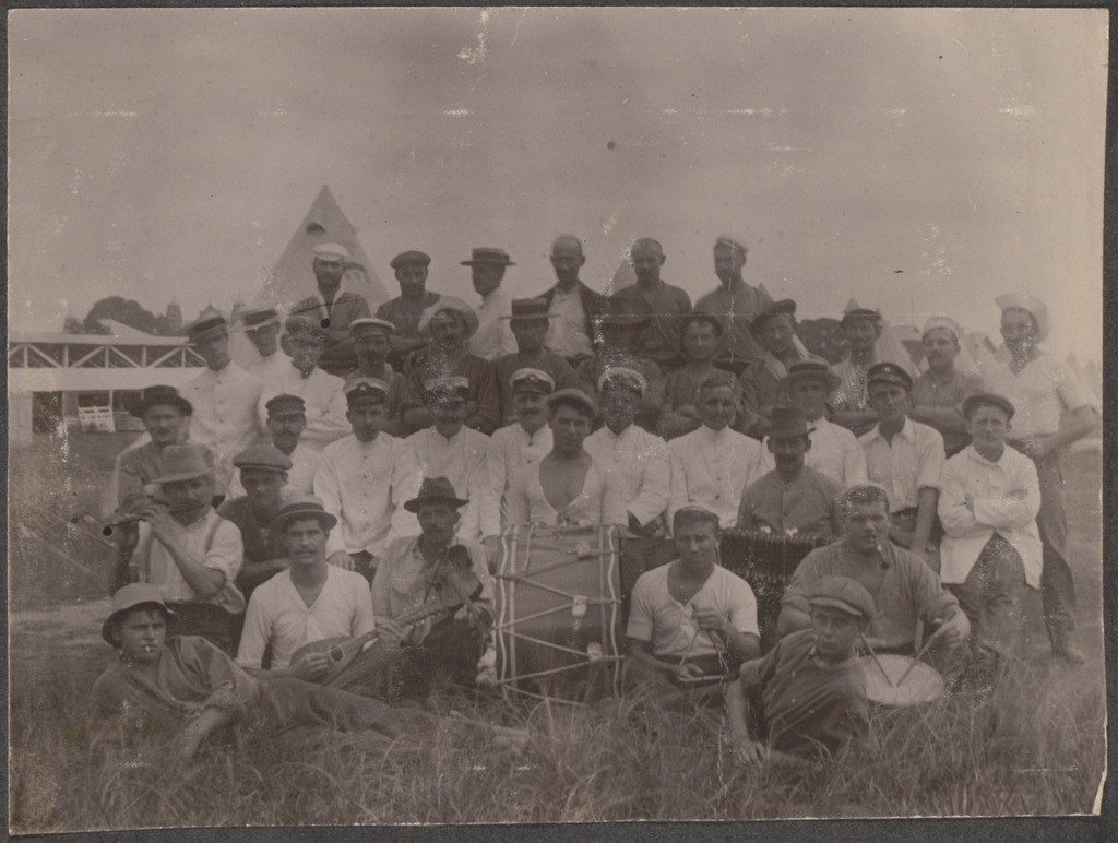 Schiesser, Carl 1 photograph : black and white ; 8 x 10.6 cm. Tile b3 of Part of Schiesser, Carl, photographer. Carl Schiesser album, 1912-1917. Title devised by cataloguer based on reference sources. Condition: Faded. Also available online at: .au/nla.pic-vn6485391-s24-b3 Persistent URL .au/nla.pic-vn6485391-s24-b3